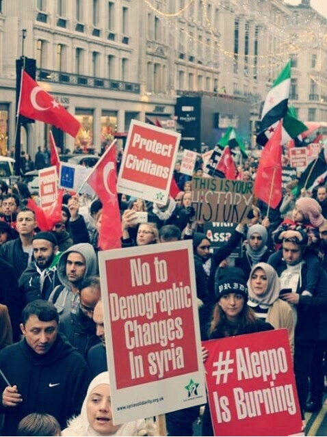 Picture taken by me near Oxford Circus, London, of the protests condemning the atrocities in Aleppo. Many Londoners marched together (Arabs, Turks, Kurds and others) calling for an end to the war in Syria. The Syrian Turks were a dominant group in the protests and were holding signs reading 'No To Demographic Changes In Syria', 'No To Genocide', 'Protect Civilians' and 'Stop Killing Children'. Many demonstrators were also waving flags of the Republic of Turkey and Syria.